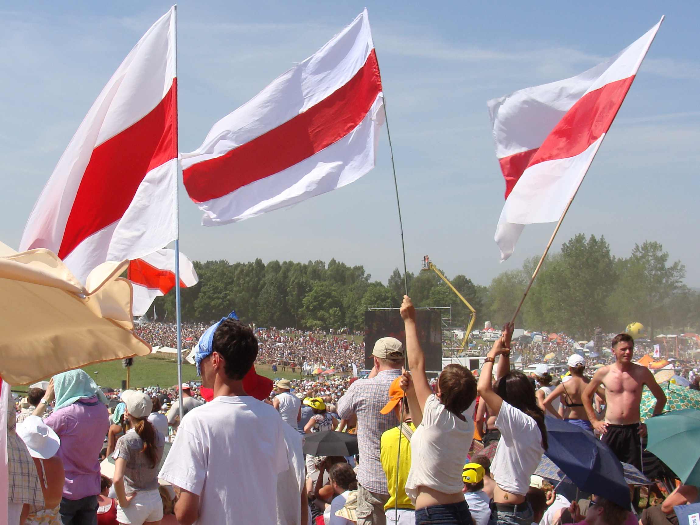 Hrunvald, 2010-07-17, Tourists from BelarusБеларуская (тарашкевіца): Беларусы на 600-ых угодках Грунвальдзкай бітвы